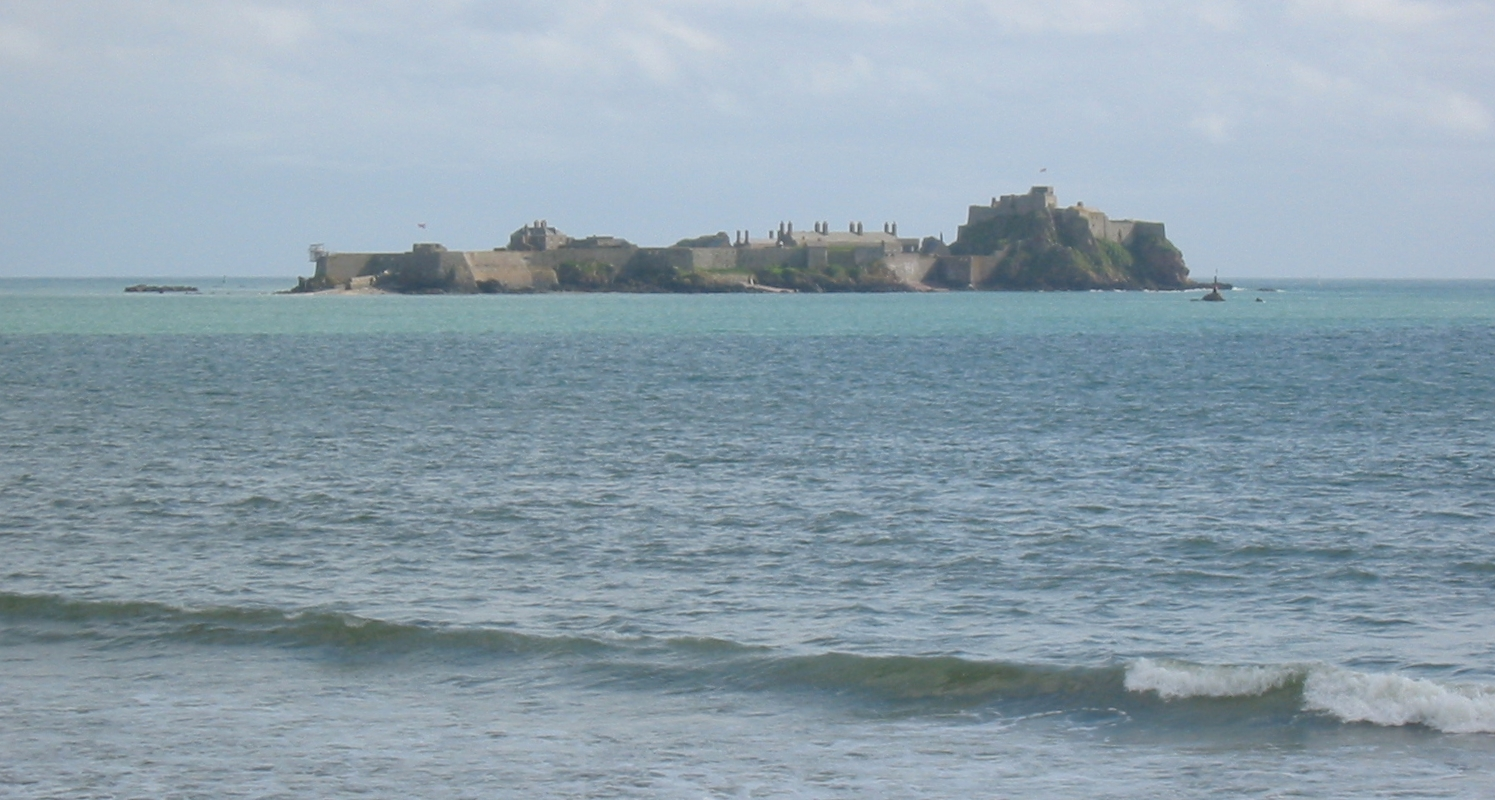 Elizabeth Castle, in St. Aubin's Bay, Jersey. The castle is situated on a tidal island - the photo shows high tide, when access is no longer possible by land.